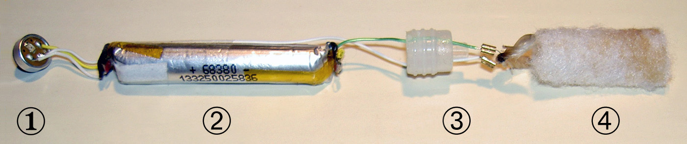 Electronic cigarette components